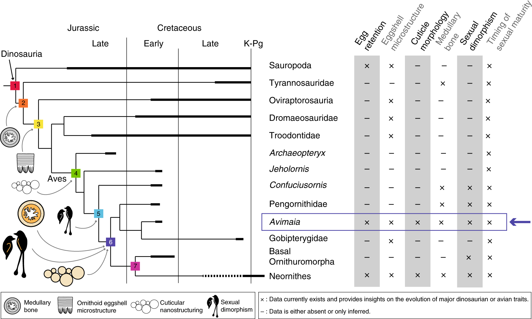 Fossil - Avimaia Schweitzerae - Simplified phylogeny with hypothetical evolutionary stages of modern avian reproduction. [1][2][3] Simplified phylogeny with hypothetical evolutionary stages of modern avian reproduction. Stage 1: Plesiomorphic dinosaurian condition: abnormal multilayered eggshells due to egg retention can occur34, dinosauroid eggshell microstructure35, possible sexual dimorphism75, strong histological evidence for sexual maturity occurring prior to skeletal maturity63. Stage 2: Possible appearance of medullary bone4,8. Stage 3: Possible appearance of ornithoid eggshell microstructure35. Stage 4: Possible appearance of cuticular nanostructuring21. Stage 5: Strong evidence for sexual dimorphism (inferred sexually dimorphic feathers, e.g., ref. 65). Stage 6: In Avimaia: presence (not necessarily first occurrence) of cuticular nanostructuring, medullary bone, and a plesiomorphic non-avian dinosaur-like timing of sexual maturity within Aves. Further support for the presence of sexually dimorphic plumage. Stage 7: Avian-like timing of sexual maturity, skeletal maturity occurs prior to sexual maturity (probably evolved multiple times in parallel in Ornithuromorpha64) References ↑ Bailleul, Alida M. (20 March 2019). "An Early Cretaceous enantiornithine (Aves) preserving an unlaid egg and probable medullary bone". Nature Communications 10. Retrieved on 22 March 2019. ↑ Pickrell, John (20 March 2019). "Unlaid egg discovered in ancient bird fossil". Science. Retrieved on 22 March 2019. ↑ Greshko, Michael (20 March 2019). "In a first, fossil bird found with unlaid egg - “I couldn’t even sleep at night,” the lead paleontologist says of her reaction to the discovery.". National Geographic Society. Retrieved on 22 March 2019.